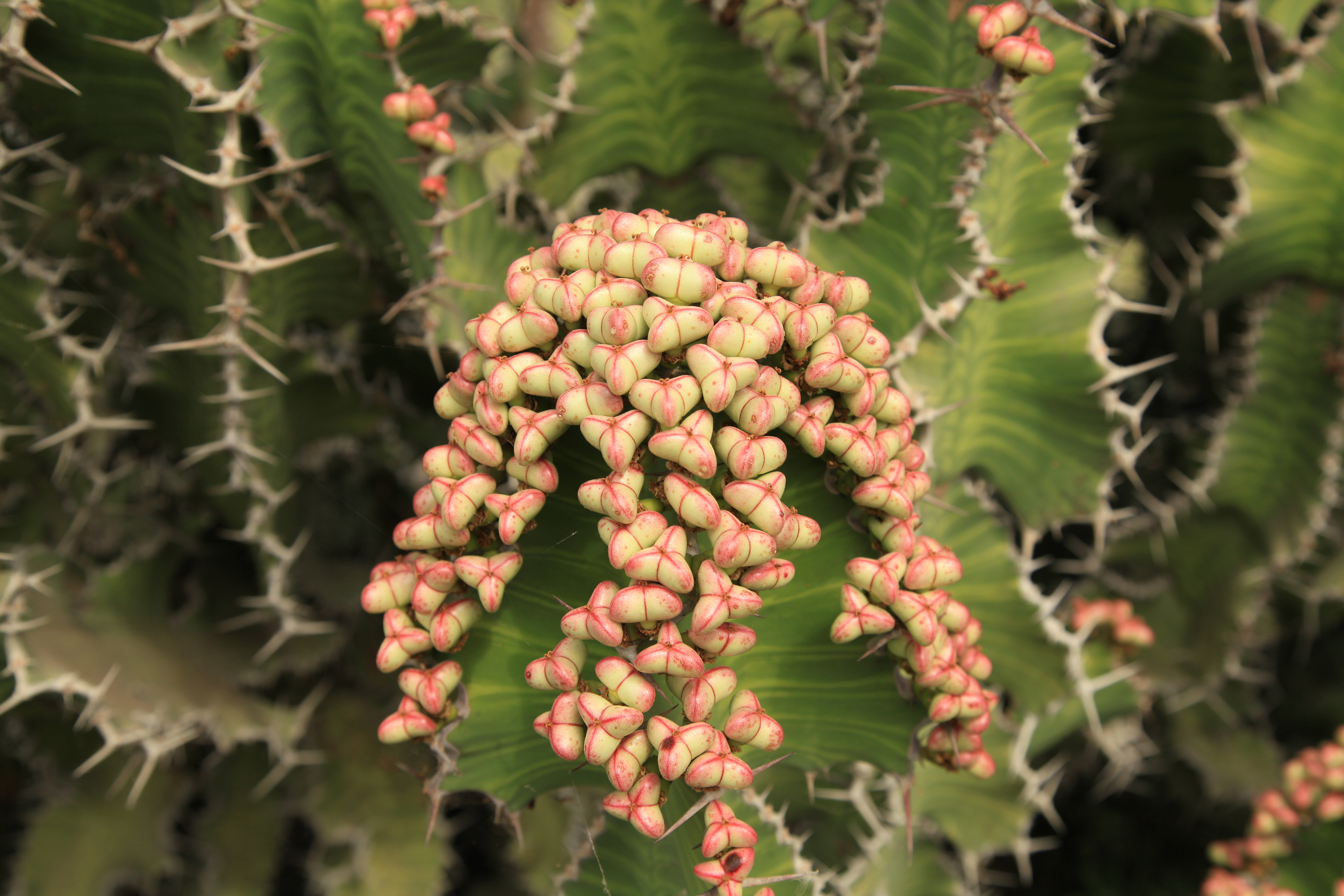 Euphorbia grandialata grown at Avenida del Saladar in Morro Jable, Pájara, Fuerteventura, Canary Islands